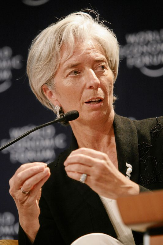 DAVOS/SWITZERLAND, 25JAN07 - Christine Lagarde, Minister of Trade of France captured during the session 'Iraq: Uniting for Stability' at the Annual Meeting 2007 of the World Economic Forum in Davos, Switzerland, January 25, 2007. Copyright by World Economic Forum by Remy Steinegger